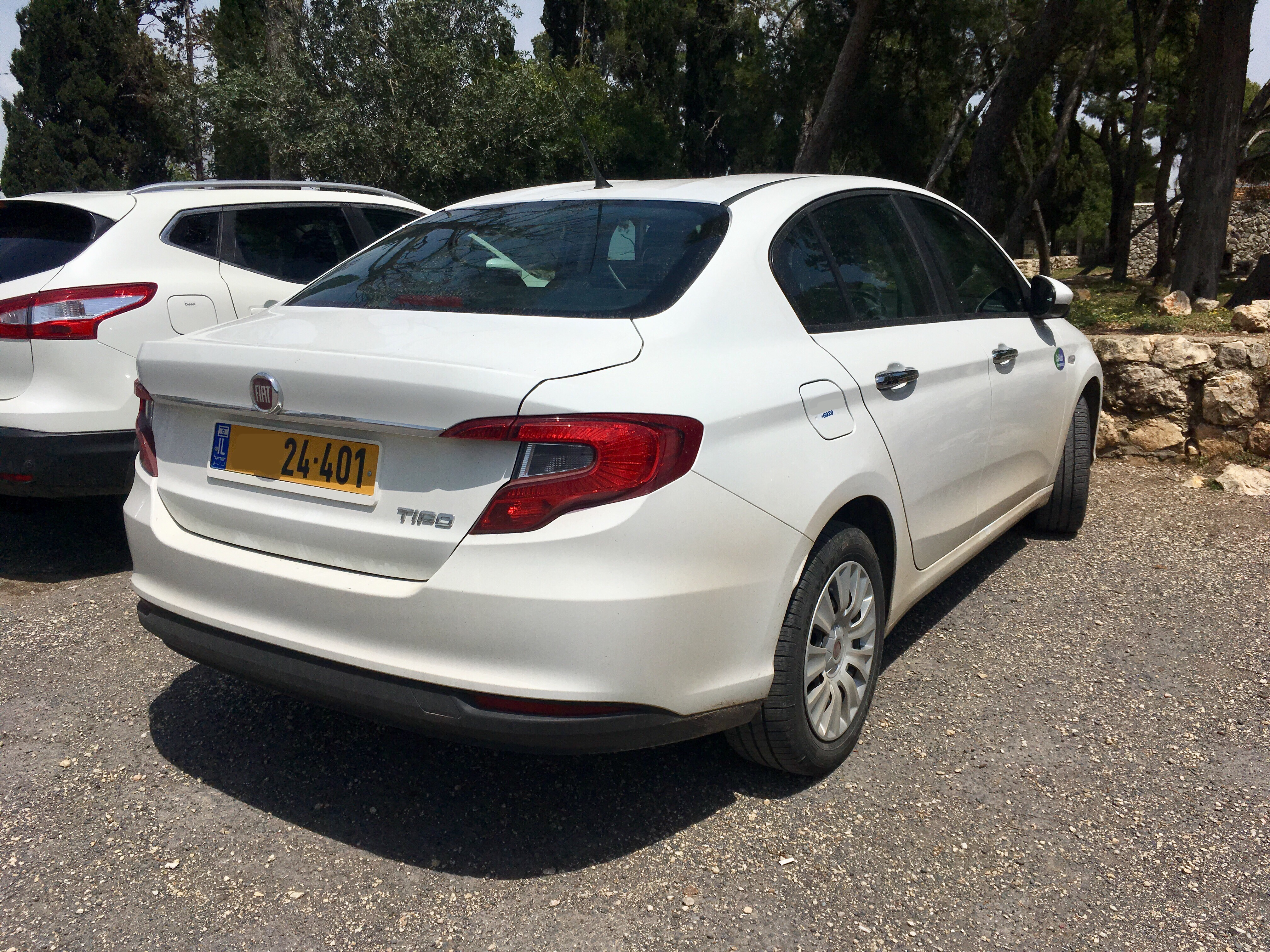 2017 Fiat Tipo Sedan on Mt. Tabor, Israel